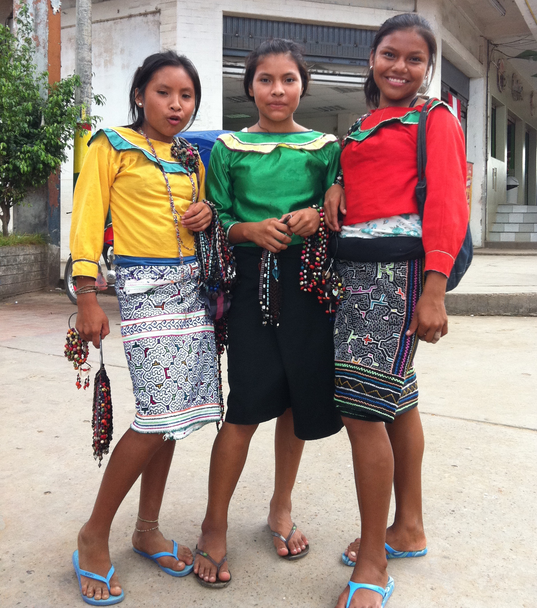 A photograph of some Shipibo women in Pucallpa taken in 2011 by me